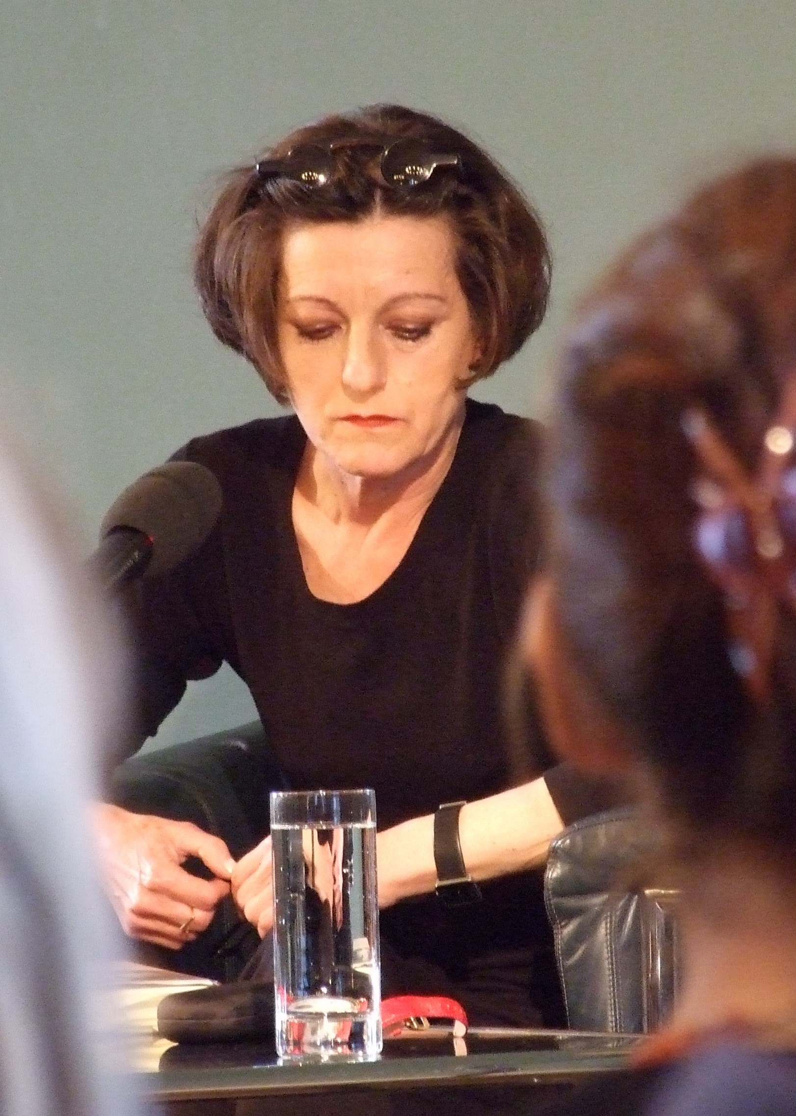 Herta Mueller, German writer, at shortlist presentation ("Deutscher Buchpreis" 2009) in Frankfurt am Main, Germany